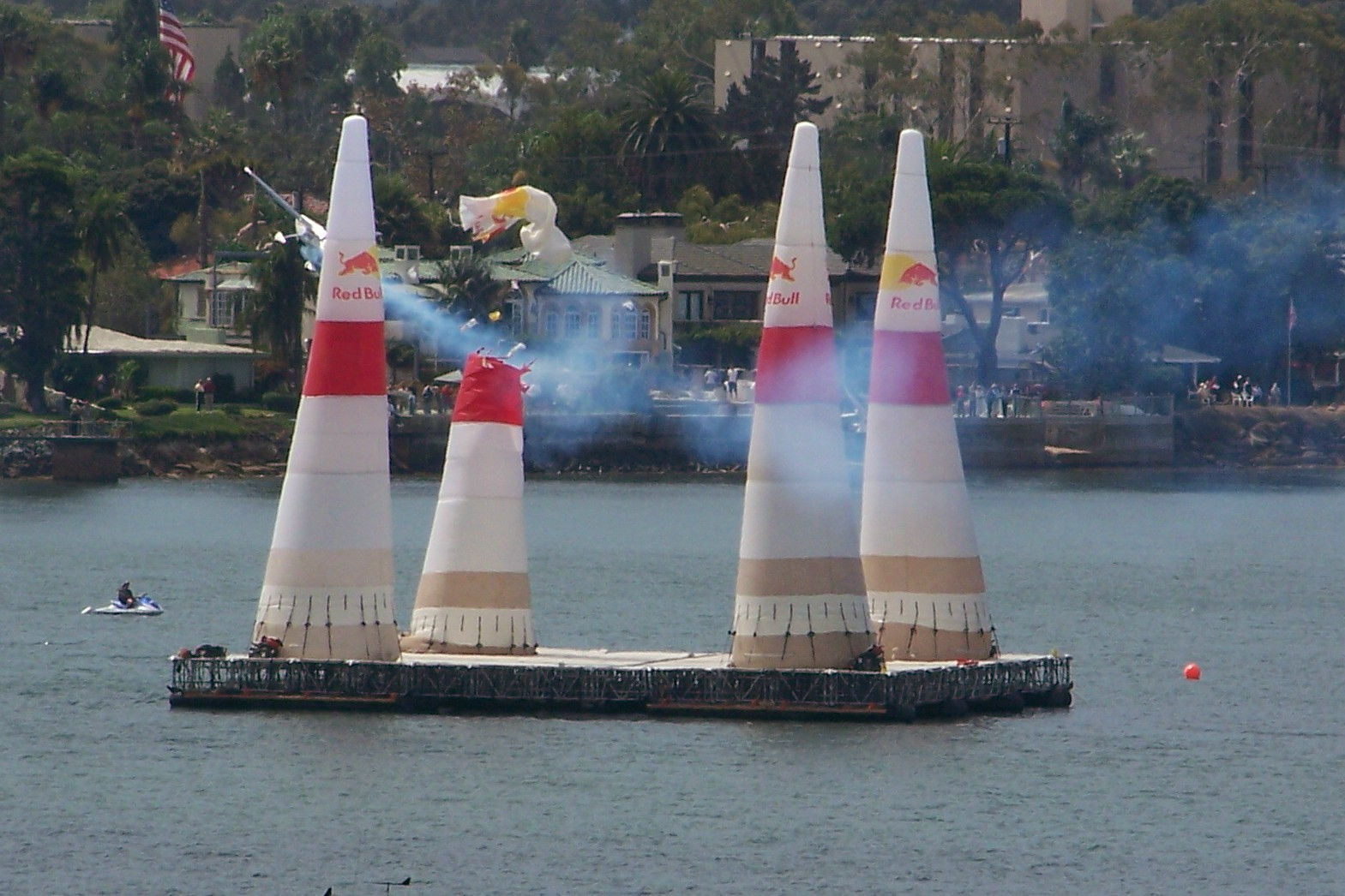 A plane slices through a pylon during a race at the Red Bull Air Race World Series in San Diego, California. Image taken on September 22, en:2007 by Nehrams2020.